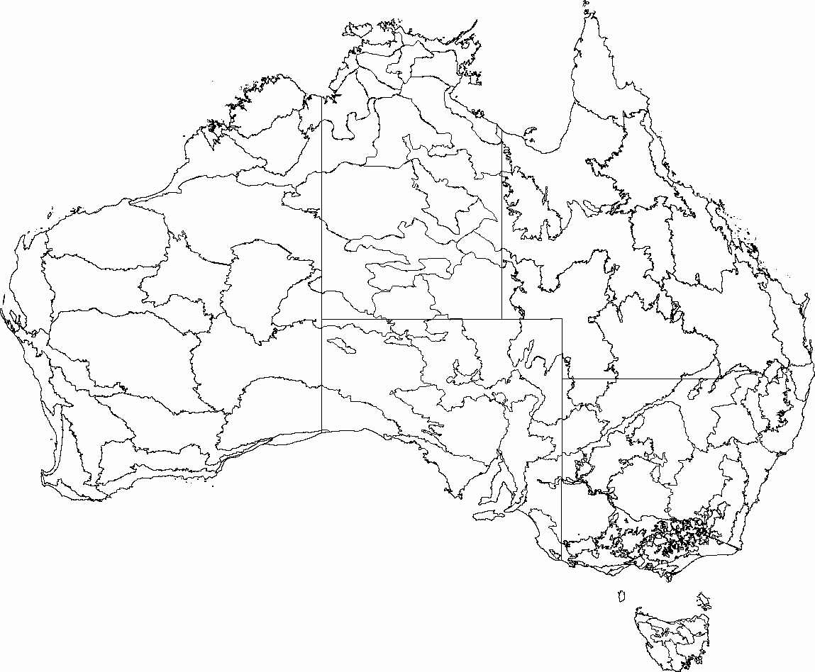 This is a map of the Interim Biogeographic Regionalisation of Australia (IBRA), with state boundaries overlaid.